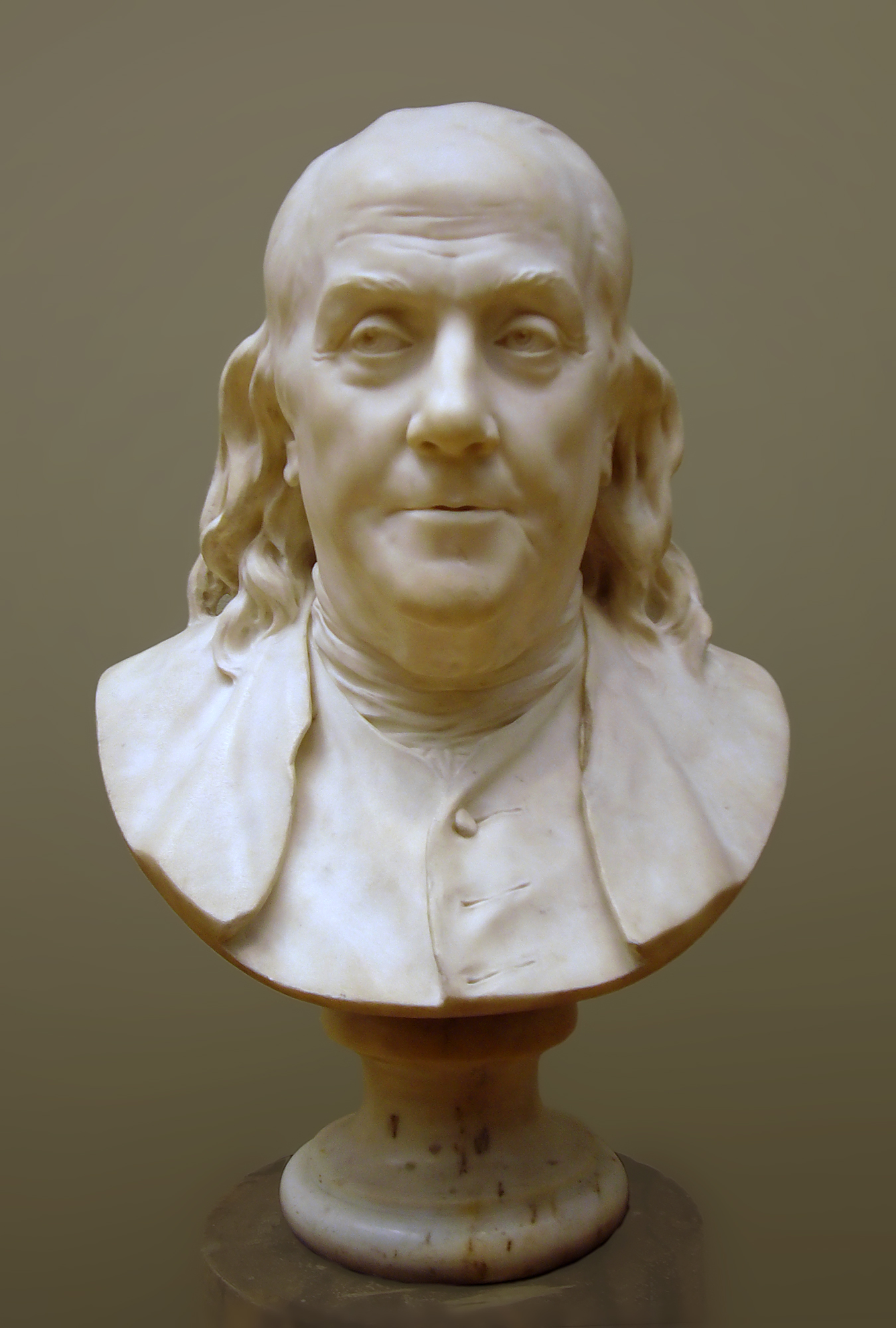 Jean-Antoine Houdon: Benjamin Franklin. Marble bust, 1778. H. without base 17 1/2 in. (44.5 cm). More information online by the Metropolitan Museum of Arts.